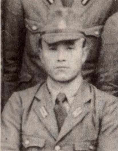 Nonaka Gorō is an Imperial Japanese Navy Captain